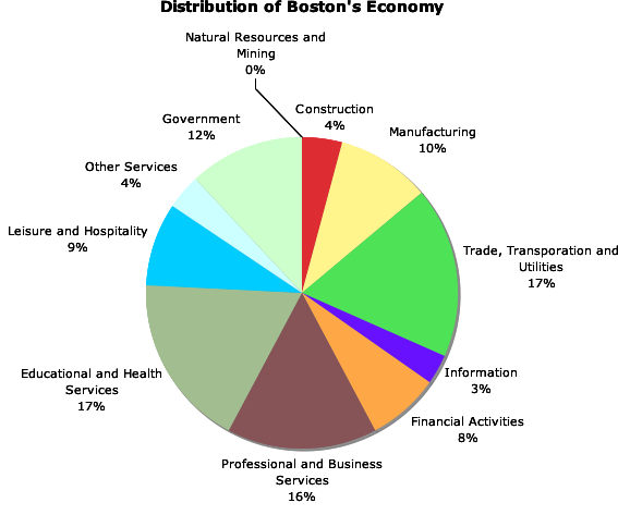 A pie chart made in Microsoft Excel demonstrating the distribution of the economy of Boston, Massachusetts. Data taken from [1].